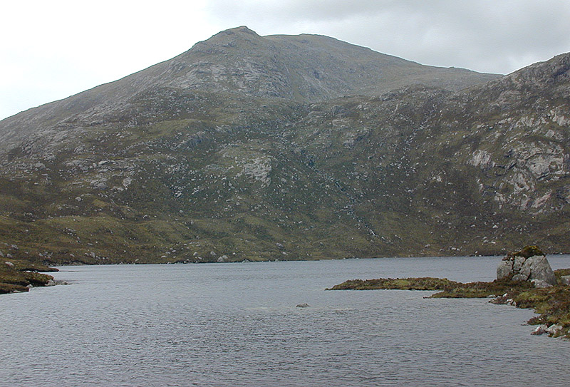 Loch Chliostair Tirga Mor rises beyond.